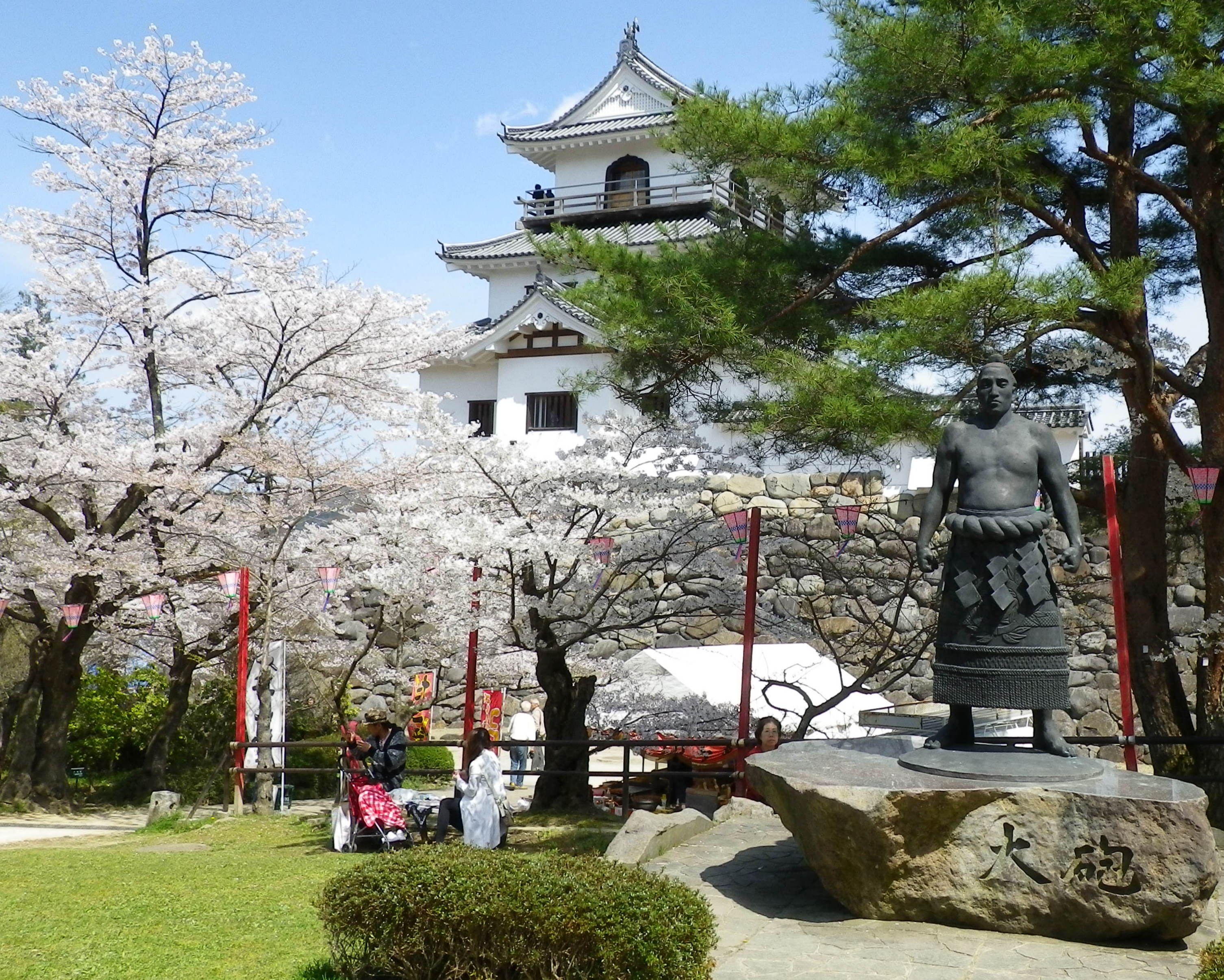 Shiroishijo Castle and a statue of Ōzutsu Man'emon in Shiroishi city, Miyagi prefecture